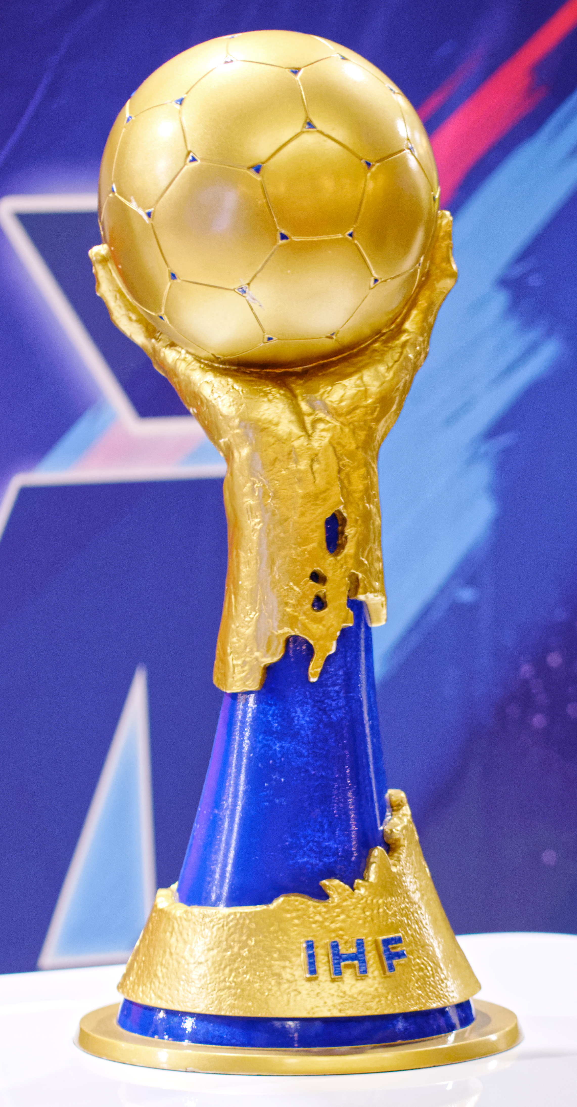 The handball world championship trophy. Presented at Coubertin (Paris) during the LidlStarLigue championship meeting between PSG and Nîmes Height: 50 cm - Weight: 19,5 kg - Made of pure gold set with sapphires - Estimated value: 800 000€.